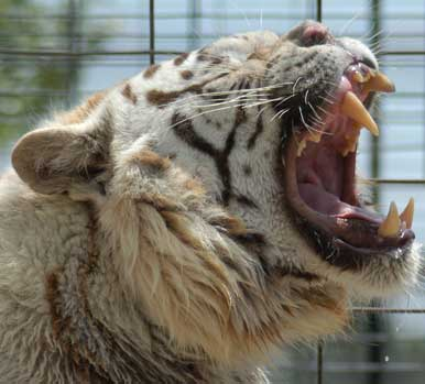 Most white tigers suffer horrible birth defects and look like this white tiger, but these cats are rarely put on display because the public would be horrified to see the effects of the inbreeding necessary to create the white coat color.